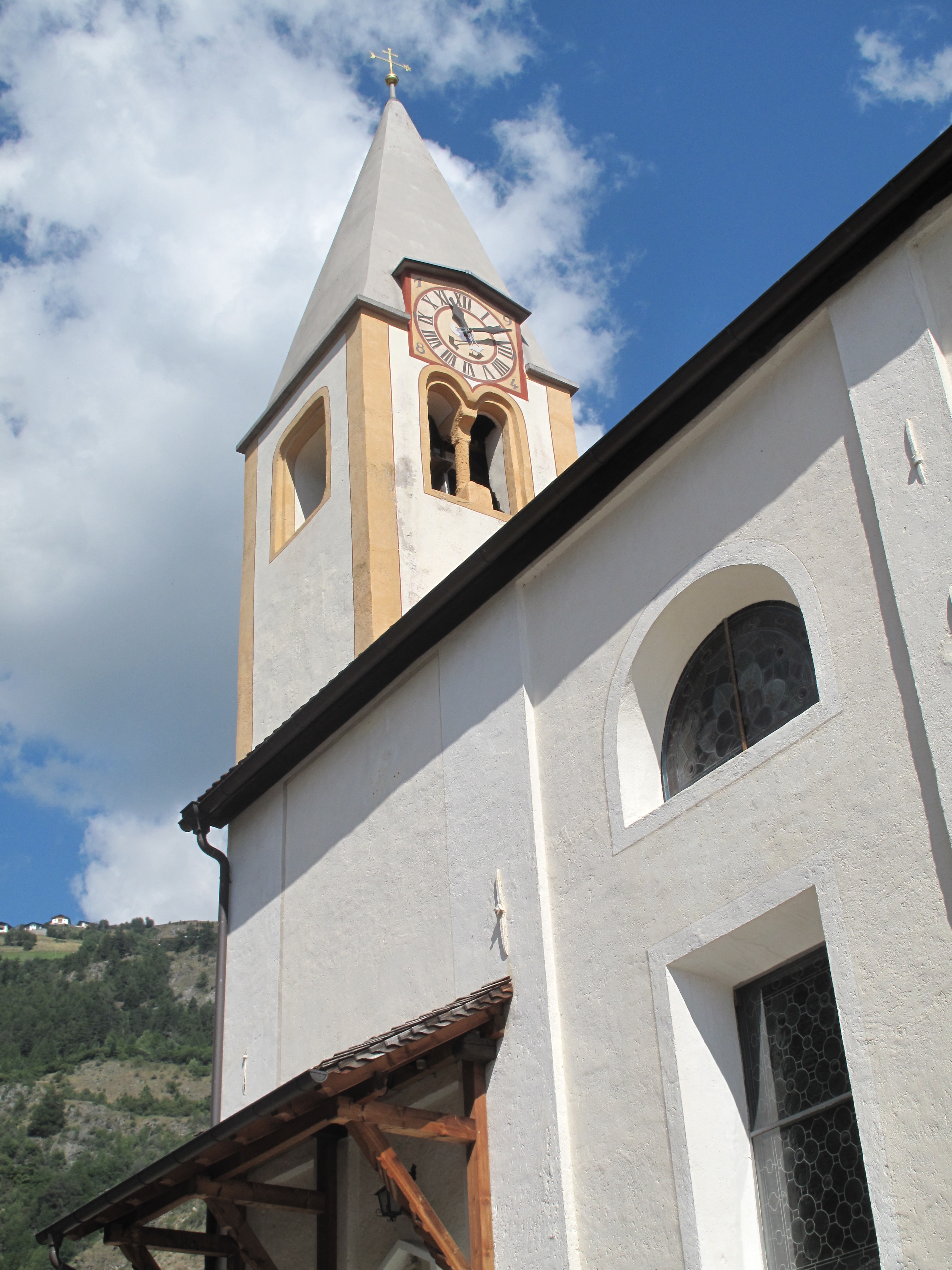 Schleis, churchtower (Pfarrkirche St. Laurentius)